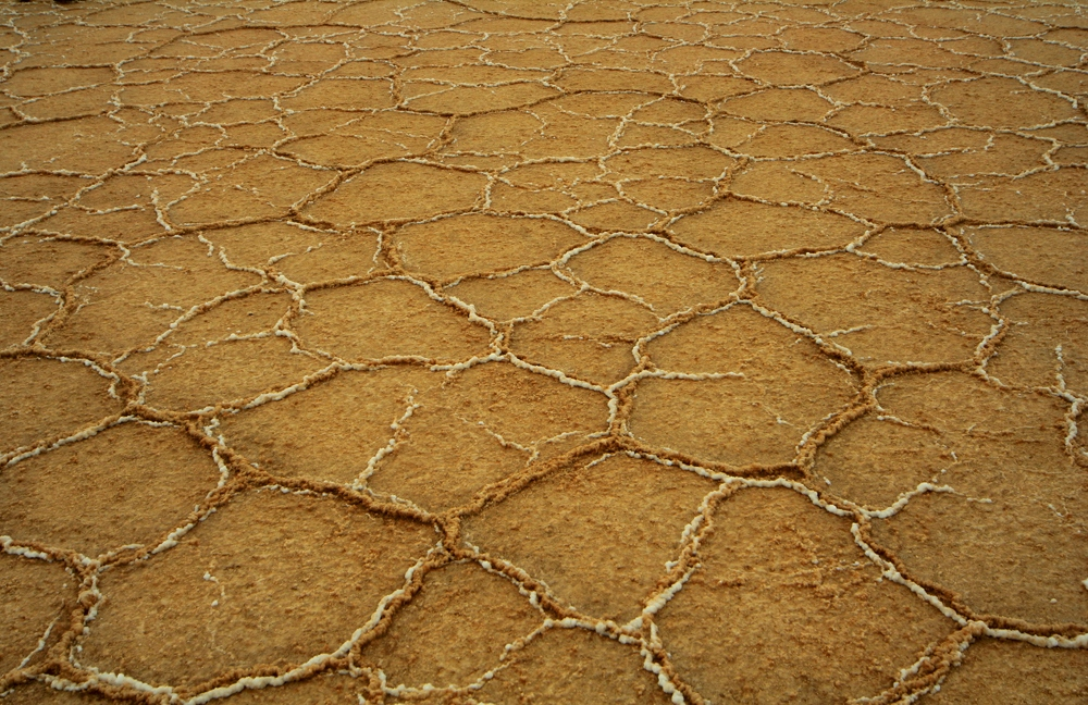 Maranjab desert is located by Aran va Bidgol, a city in Isfahan province, Iran.